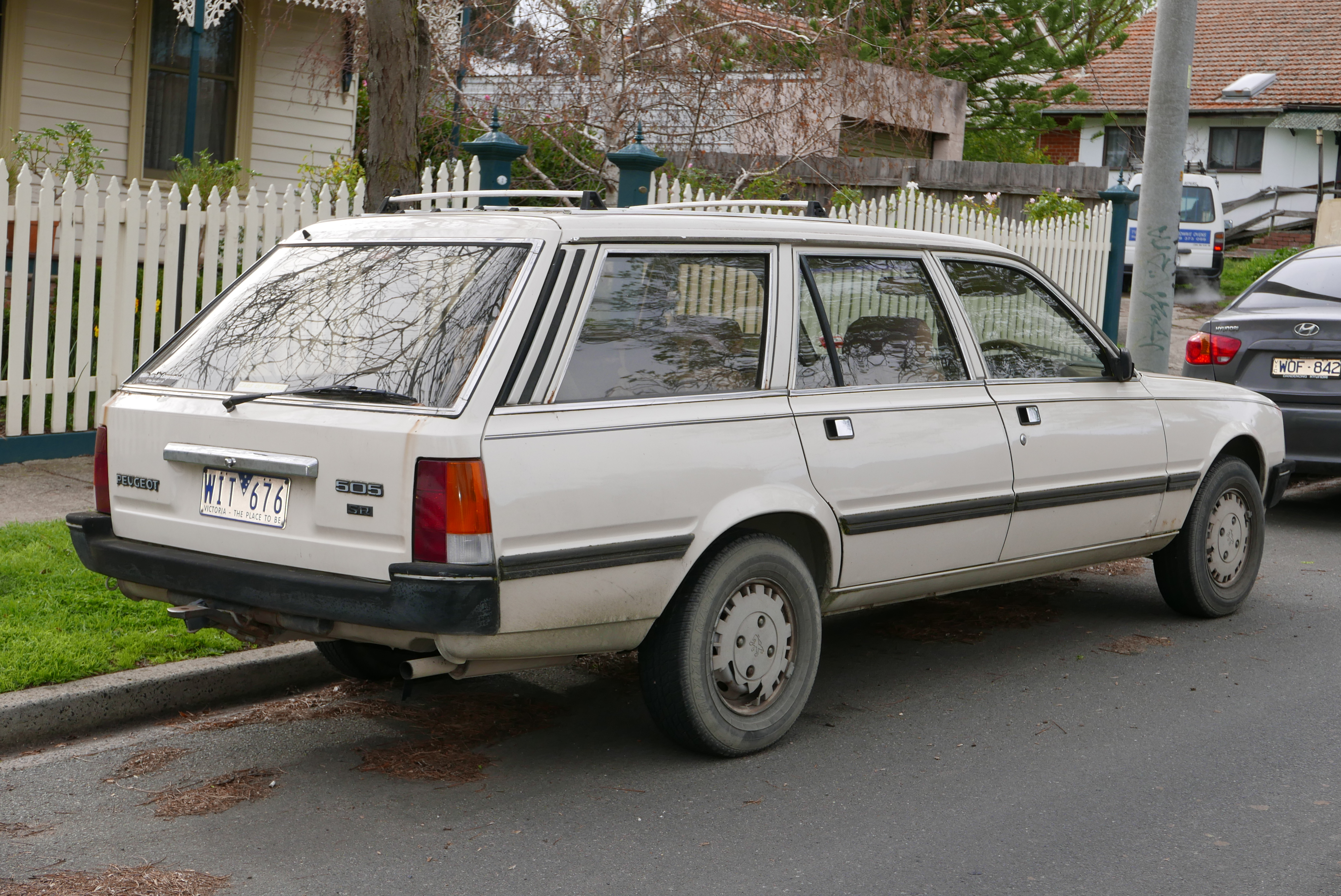 1984 Peugeot 505 SR station wagon. Photographed in Ivanhoe, Victoria, Australia. Vehicle registration enquiry results Jurisdiction Victoria Registration WIT676 Chassis code Not available Engine code X1723603X Compliance date Not available Year of manufacture 1984